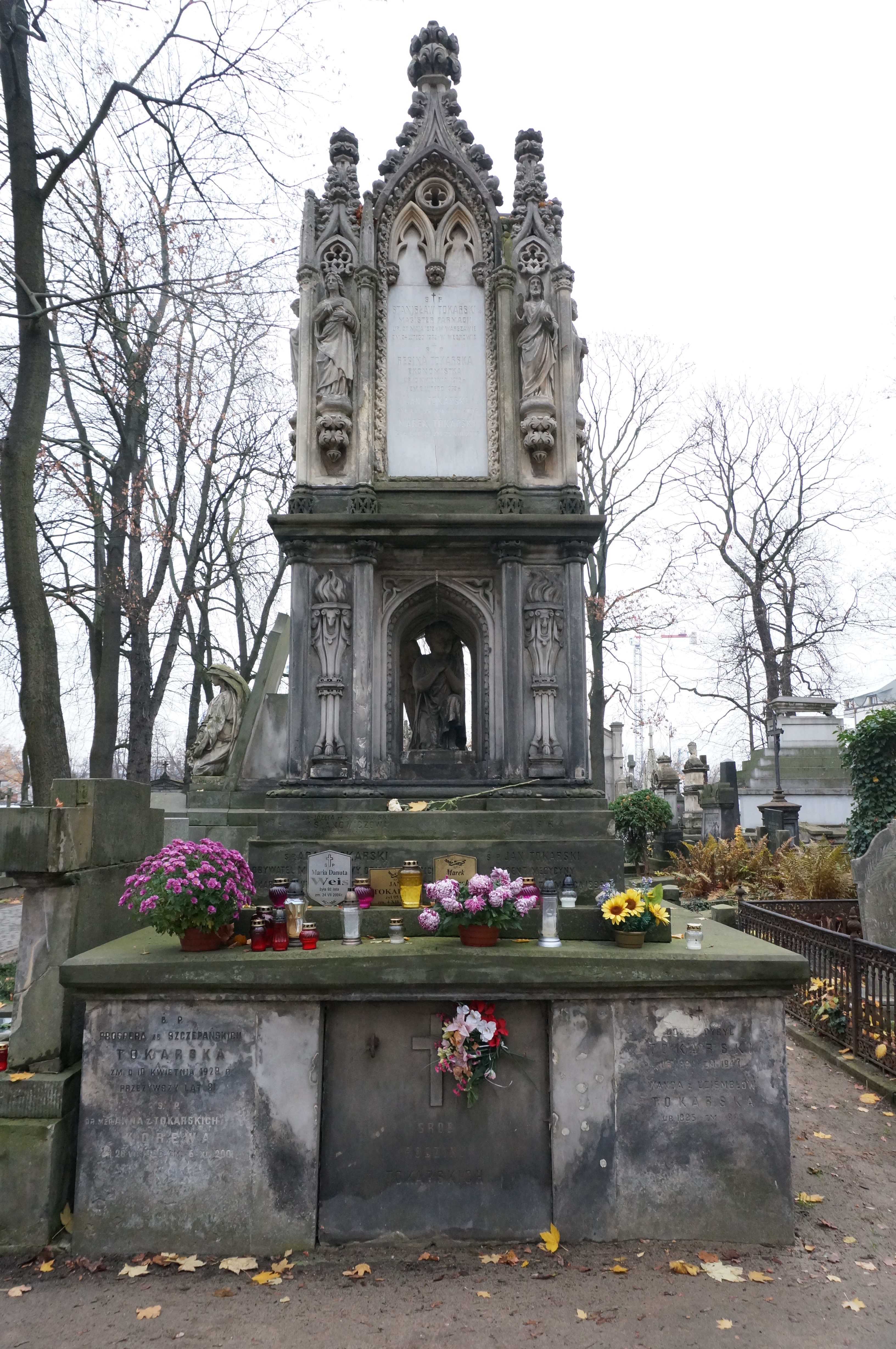 The grave of Paweł Asłanowicz at the Powązki Cemetery (section 181, row 5, grave 30-31)